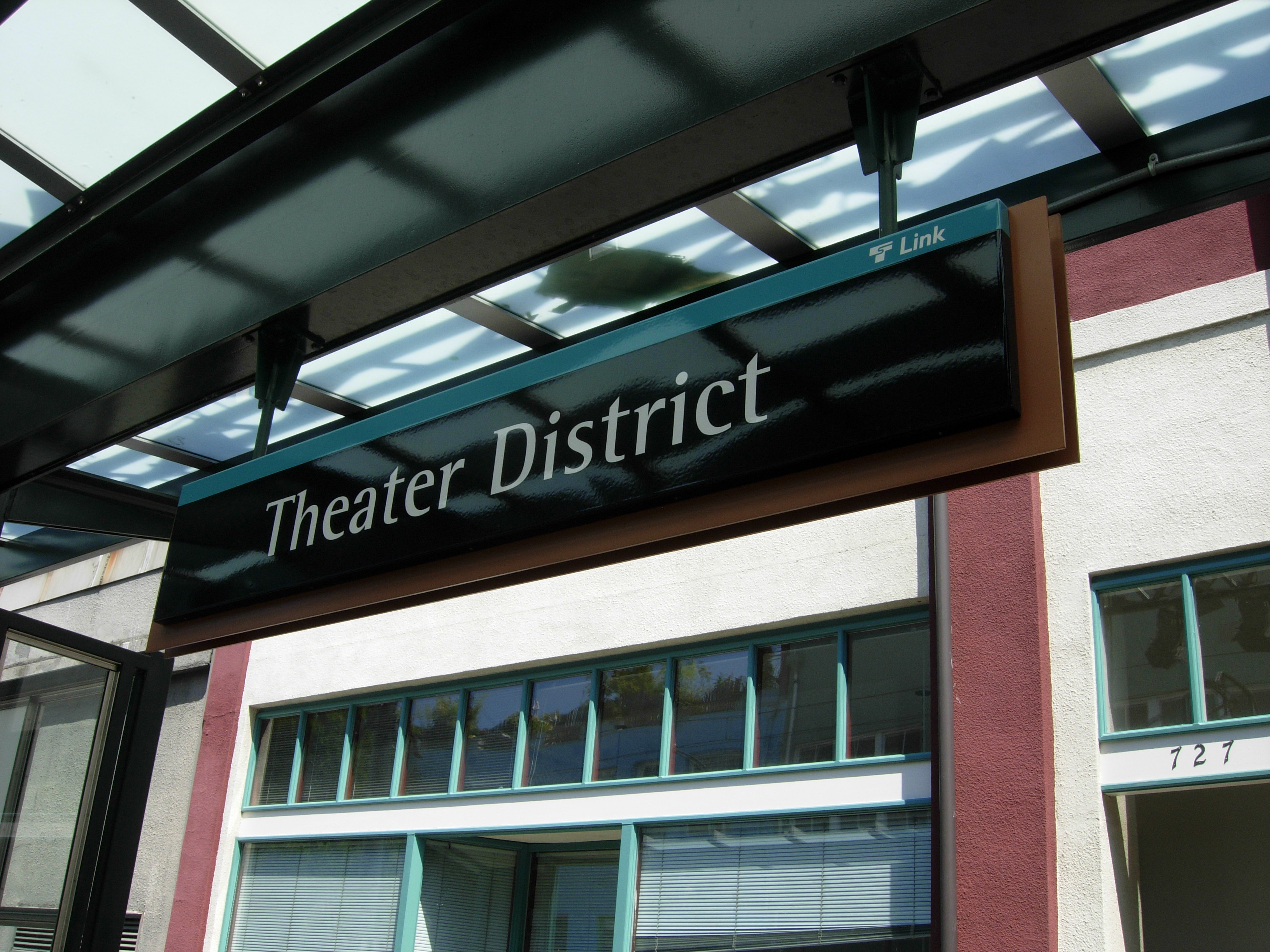 Photo of the Theater District Station. I took this photo myself 7-24-2009.